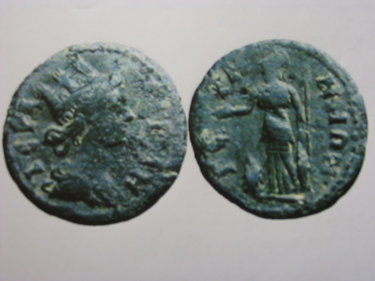 Small provincial bronze of Mysian Germe, 3rd cent. (reign of Gordianus III), bearing the legend ΓΕΡΜΕΝΩΝ and the figure of Athena on reverse [BMC 15, 64,12 ; SNG Von Aulock 1093 ; SNG Copenhagen 132]